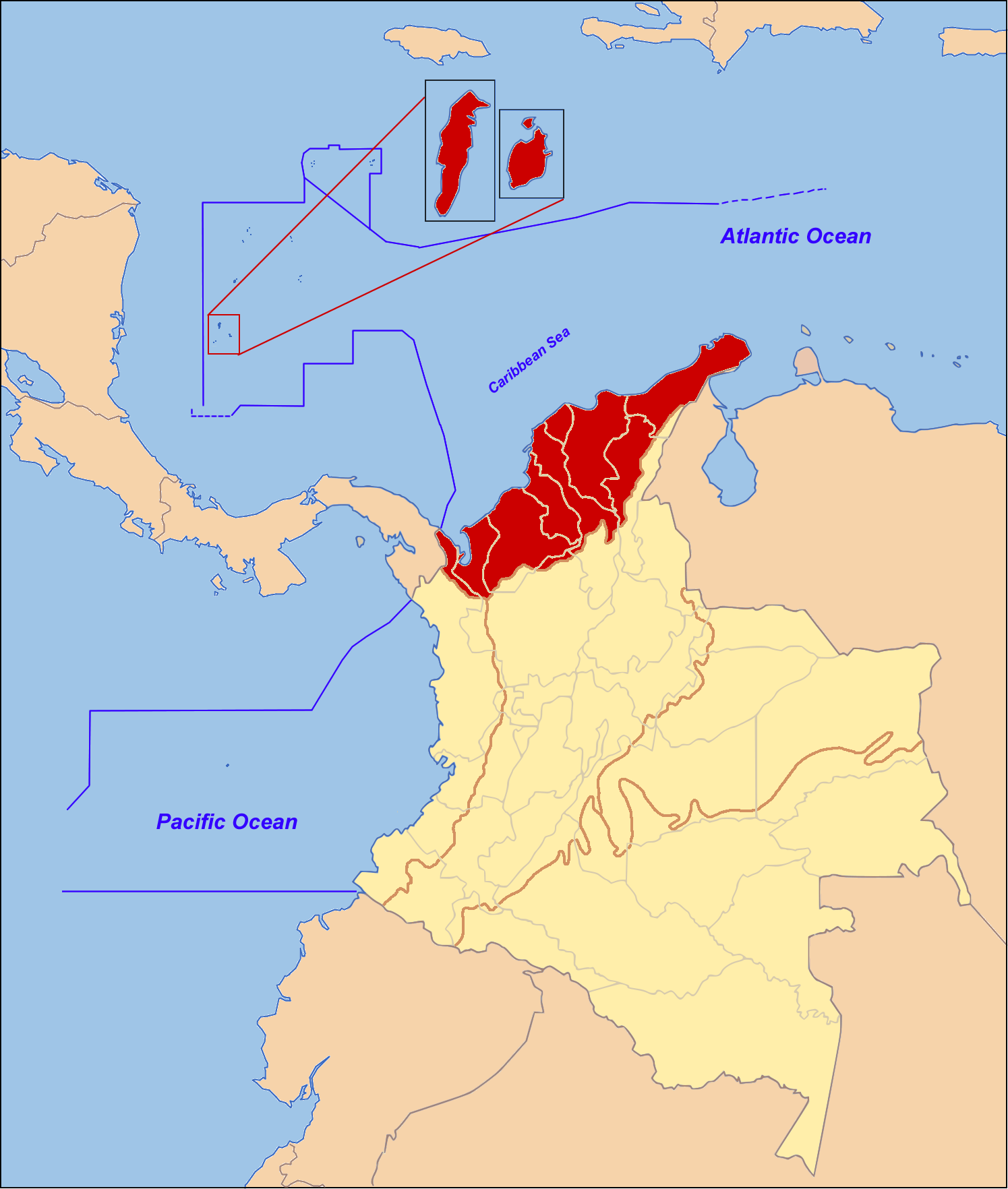 Image of map depicting the Caribbean Region — Insular region of Colombia